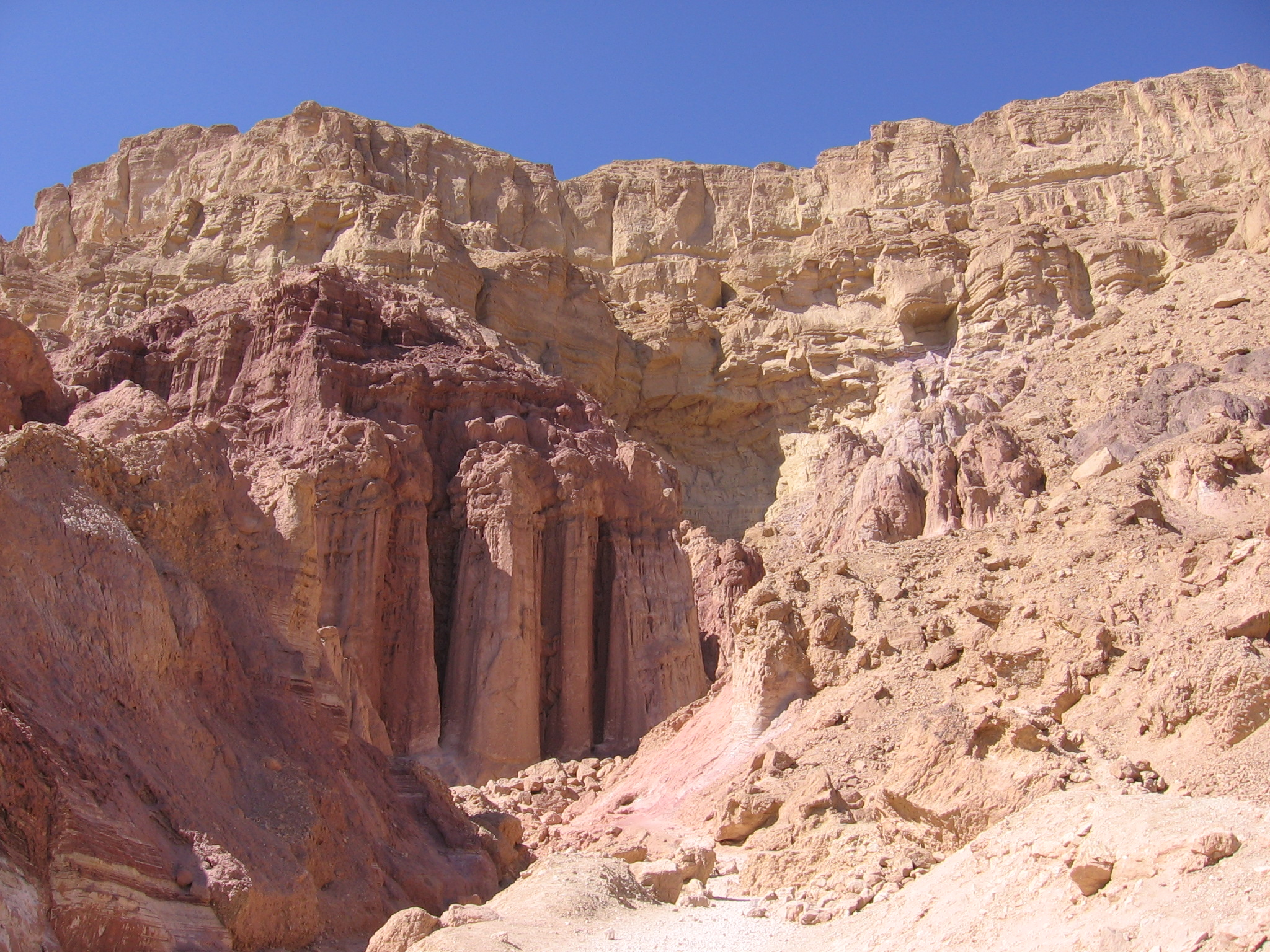 Geology of Israel